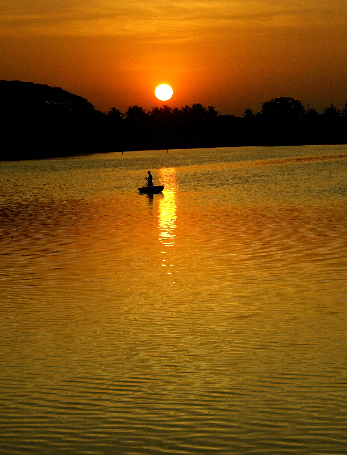 Today the day was clear so I have completely different sunrise pictures of Ulsoor lake for you. Let me know what you think. The Entire colection link in case you want to see more